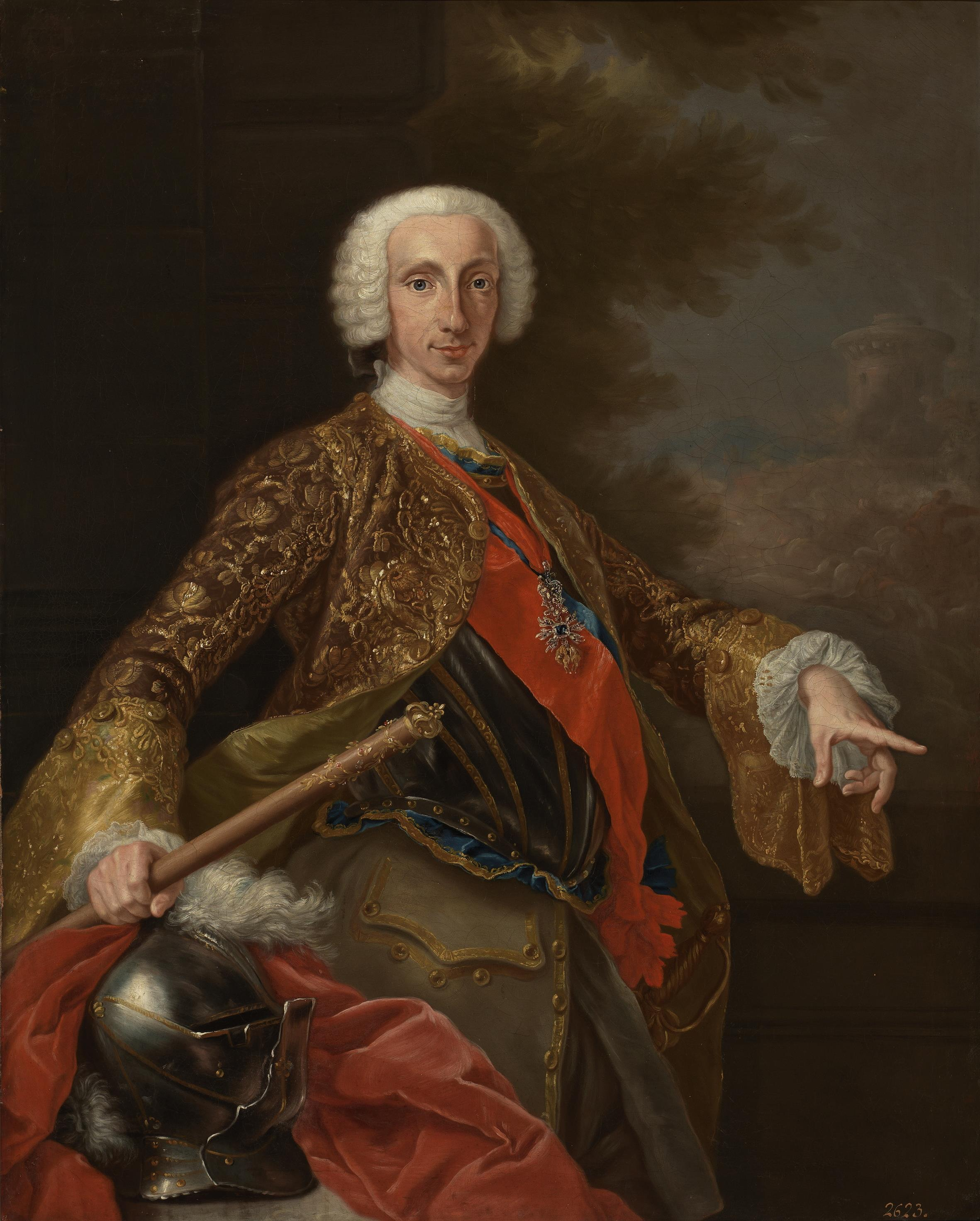 Portrait of Charles III of Spain (1716-1788) as King of Naples and Sicily (throne that he occupied before becaming king of Spain).